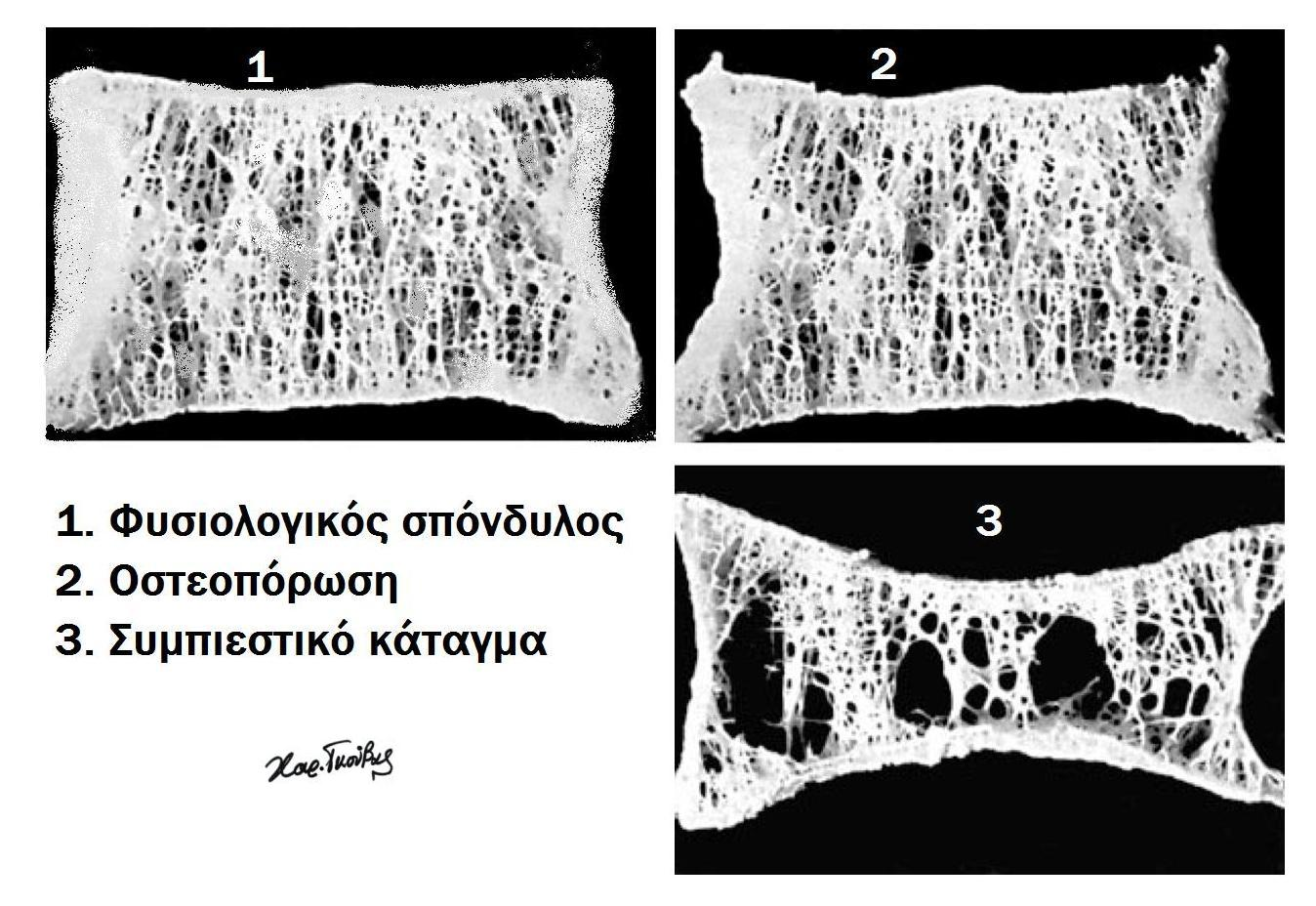 Vertebral osteoporosis.